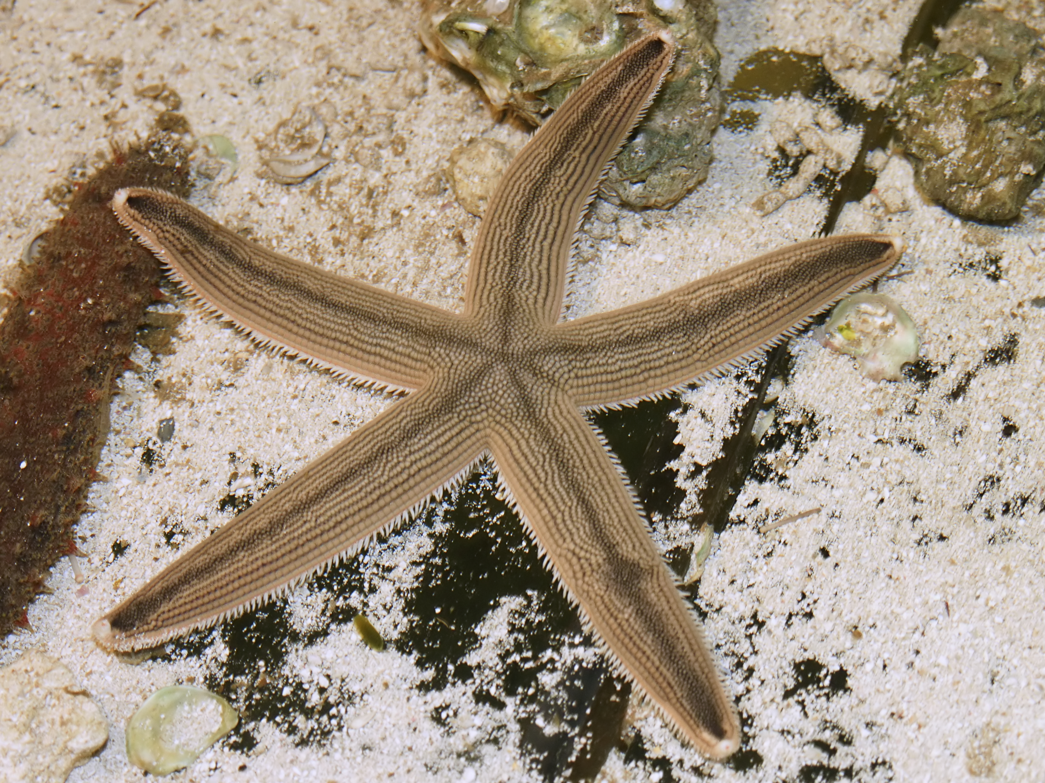 Lined Sea Star at St. Lucie County Marine Center in Fort Pierce, St. Lucie County, Florida, U.S.A.